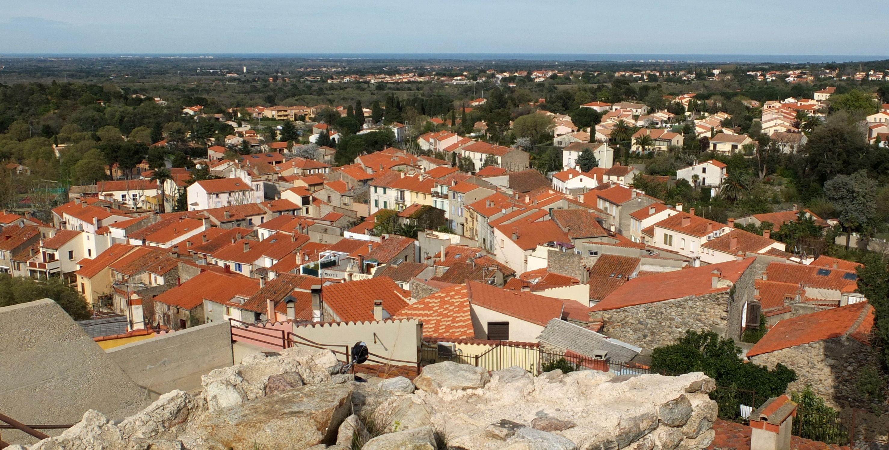 Laroque-des-Albères, the village seen from the castle (view from SW), in the background the Mediterranean Sea.